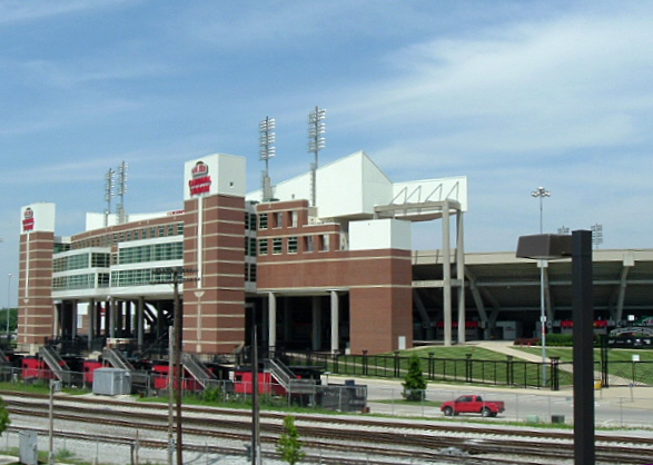 Picture of Papa John's Cardinal Stadium, as viewed from Central Avenue. Taken and uploaded by Jeffrey B. Morris on 6-6-06. All rights released.